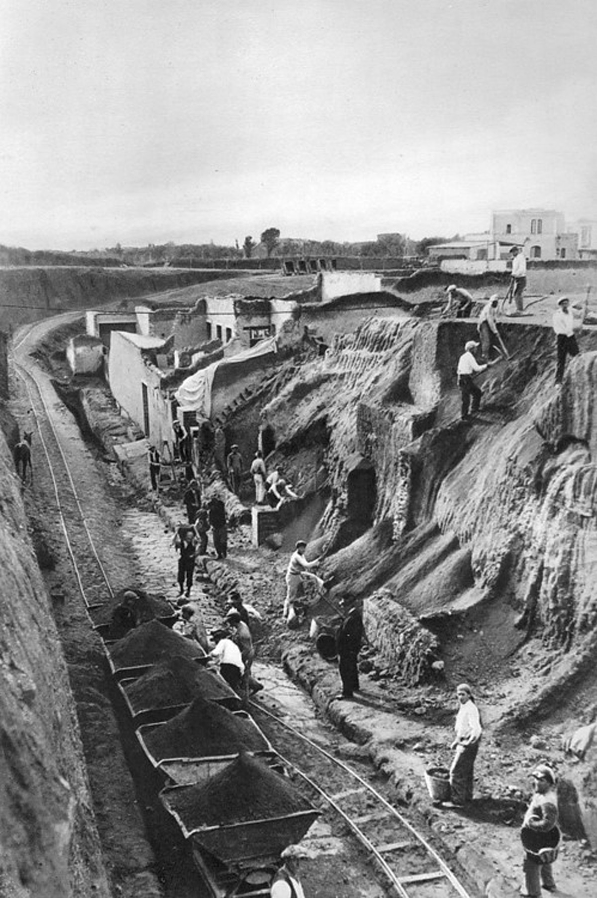 The excavation of Herulaneum, ca. 1929 (published by A. Maiuri; Ercolano. Rome-Novara-Paris. Istituto Geografico de Agostini, 1932, p. 16) The photo documentation of the Herculaneum excavation, something that owes a great deal to the practices followed by Spinazzola at Pompeii, is used by Maiuri in his 1932 book to construct a progressive visual narrative of the rebirth or resurrection of the ancient town. The photo shows, snaking into the distance, the track of the Decauville railway with its bins full of debris. In the foreground, to the right of the track, is a towering mound of amorphous compacted tufo. It is being attacked by four men using picks. On the top of the mound we see another man employing a pneumatic drill. A little further along on the right we see the first outlines of a building emerging from the tufo that has been broken up. The long lines left in the tufo by recent pneumatic drilling are visible. In the distance, beyond these signs of work, we see Roman houses which already have been excavated and restored. The edges of the excavation pit can be seen inthe far distance.